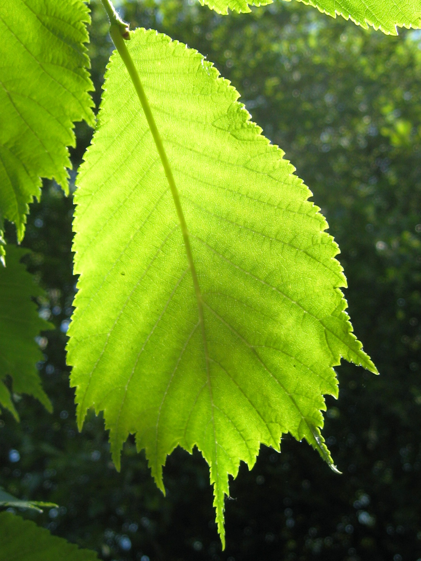 Photo of Ulmus laciniata leaf taken in midsummer